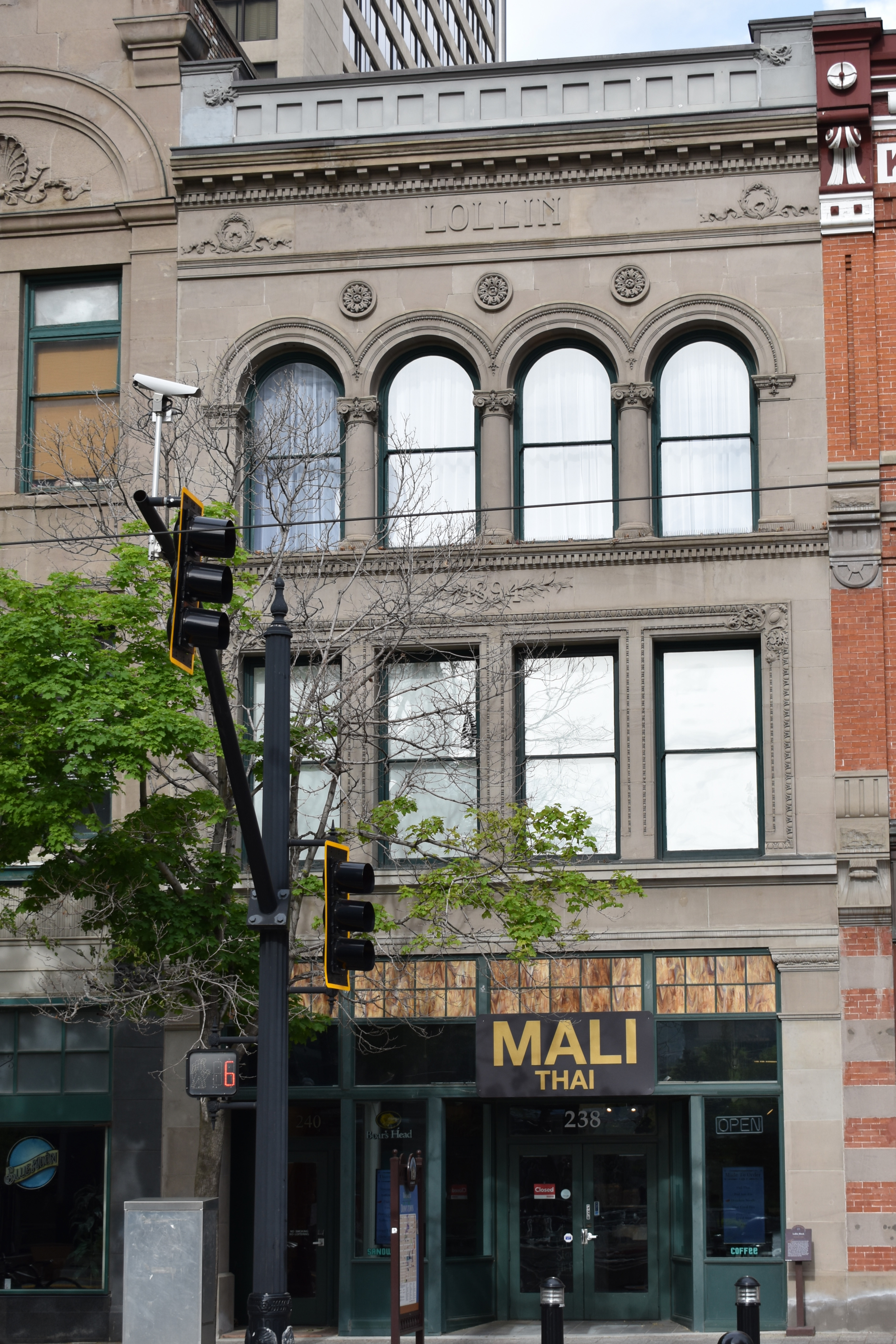 The Lollin Block (1894) in Salt Lake City was designed by R.K.A. Kletting and is listed on the National Register of Historic Places.